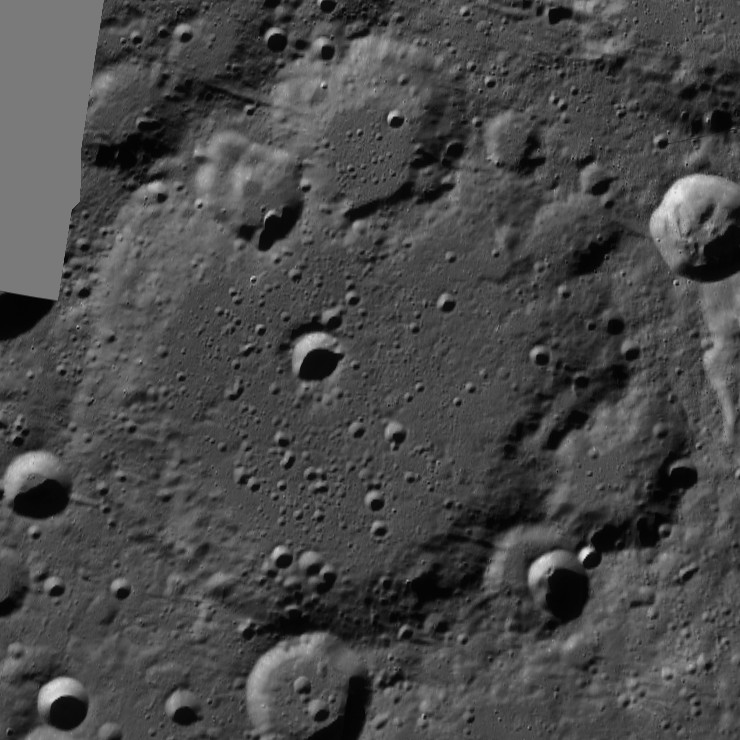 Brianchon crater, on the moon. Lunar Reconnaissance Orbiter North Polar mosaic.